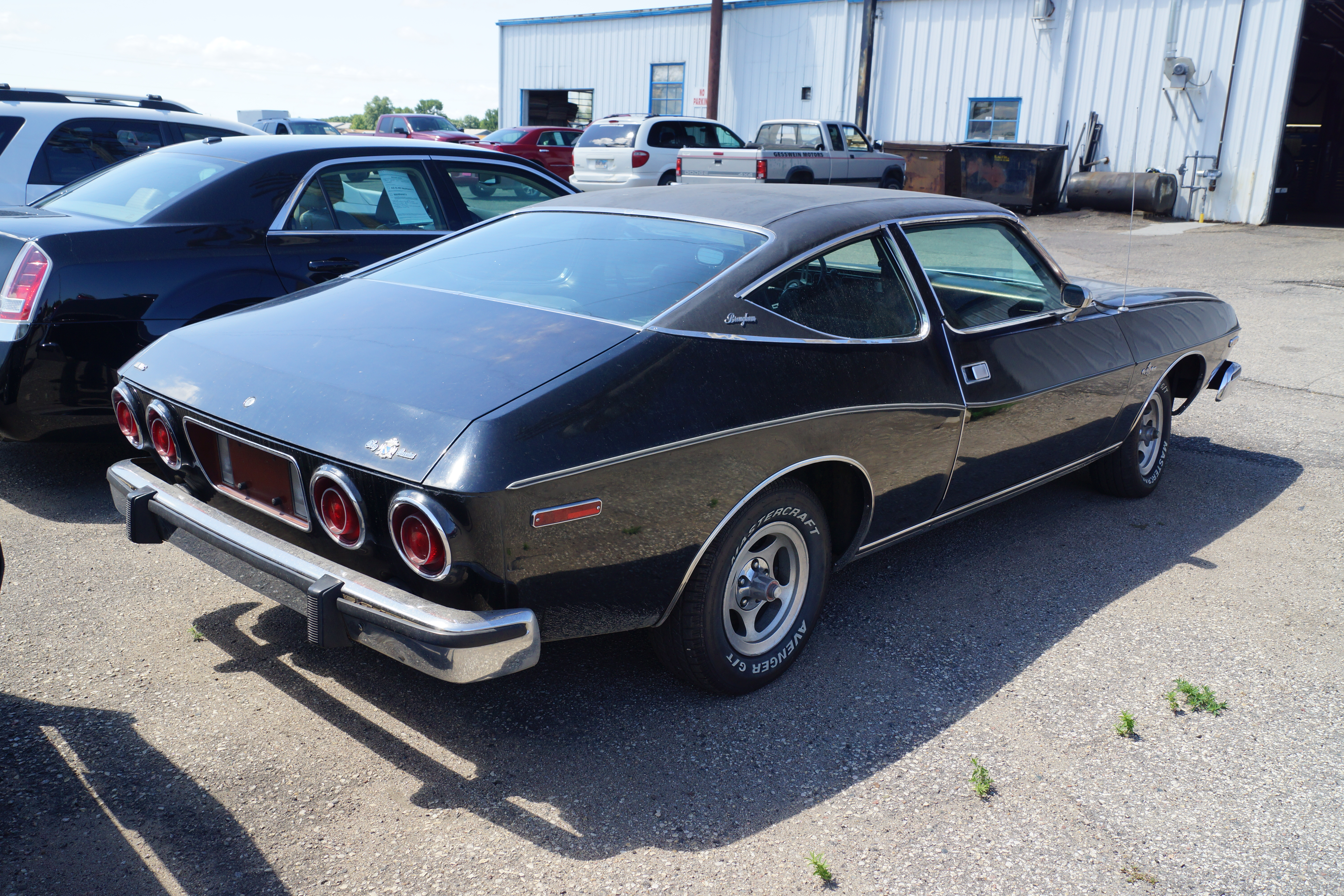 Click here for more car pictures at my Flickr site. 1975 AMC Matador Oleg Cassini - Black w/Copper Accents - 360 V-8 Motor, (Automatic Transmission--just serviced--shifts as it should), Power Steering & Brakes, Factory AC, Tilt Steering Wheel and Cruise Control - Needs Paint, Runs good!